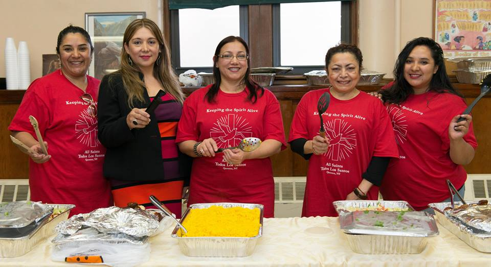 Metropolitan New York Synod Todos Los Santos Lutheran Church